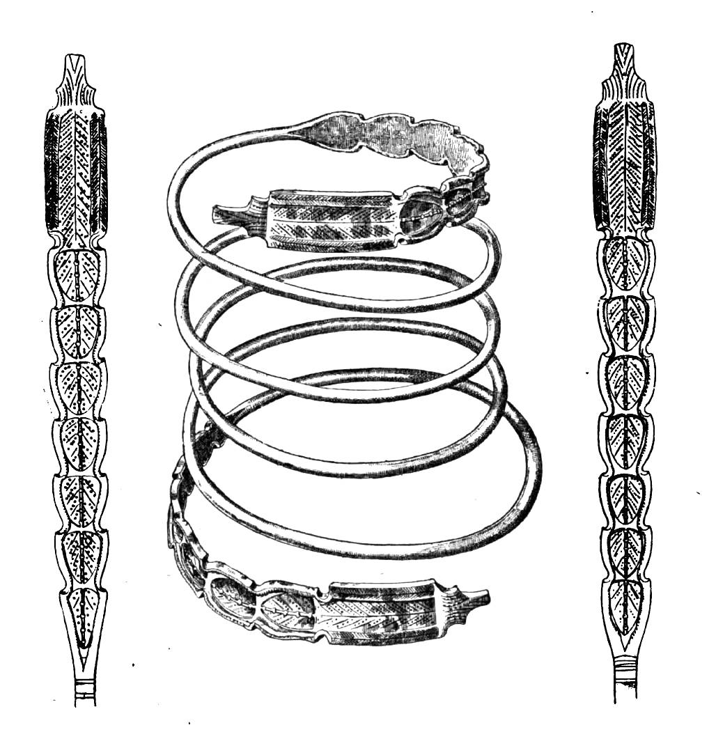 Silver snake-headed bracelet, archaeological finds from Transylvania (Ancient Dacia) at Budapest Museum according to Hampel Joseph Hungarian scholar